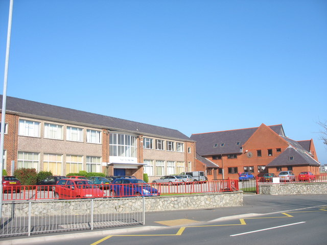 Ysgol Syr Hugh Owen School A comprehensive secondary school serving the town of Caernarfon and the immediate area outside the town. It is named in honour of Sir Hugh Owen, a pioneer of Welsh secondary and tertiary education 266700